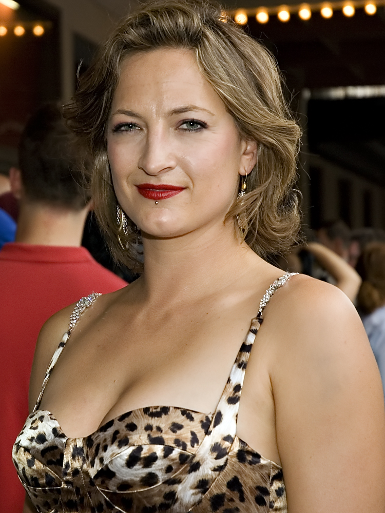 Zoë Bell at a Grindhouse premiere in Austin, Texas.